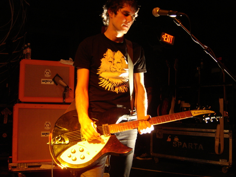 Keeley Davis performing with the band, Sparta May 30th, 2007, at the Soma in San Diego, California.